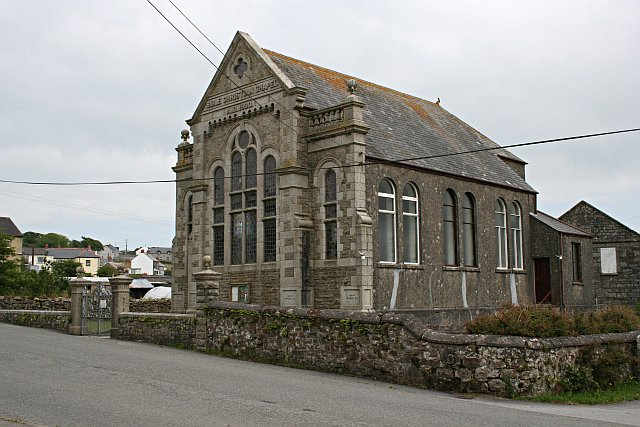 Carnkie Methodist Church. This impressive building was built in 1900 as a Bible Christian Chapel.